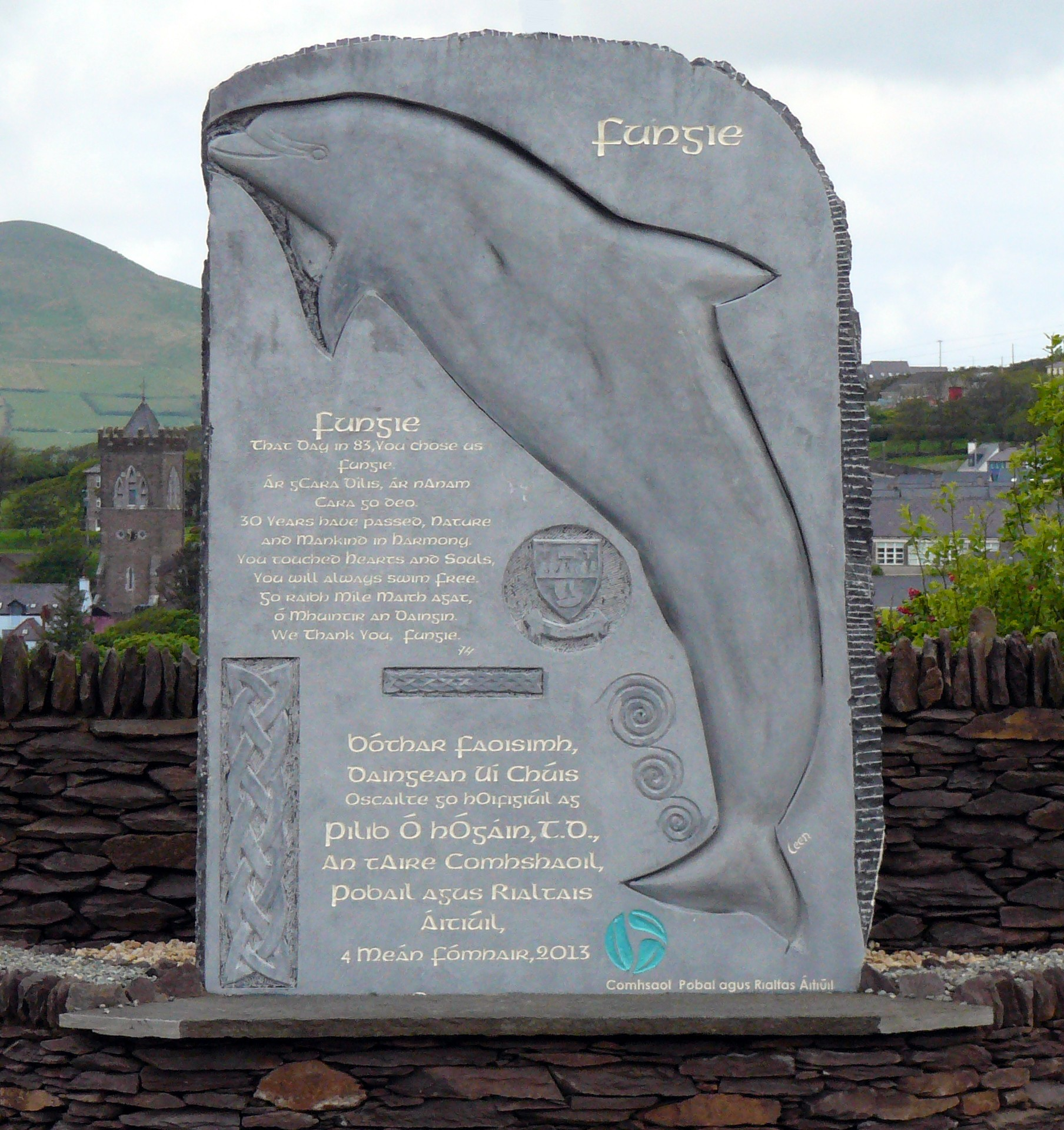 Dolphin Fungie stone memorial on the Old Brewery Road, above Dingle, County Kerry, Ireland, unveiled in 2013 honoring Fungies' permanent residence in the bay, entertaining locals and tourists since 1983.